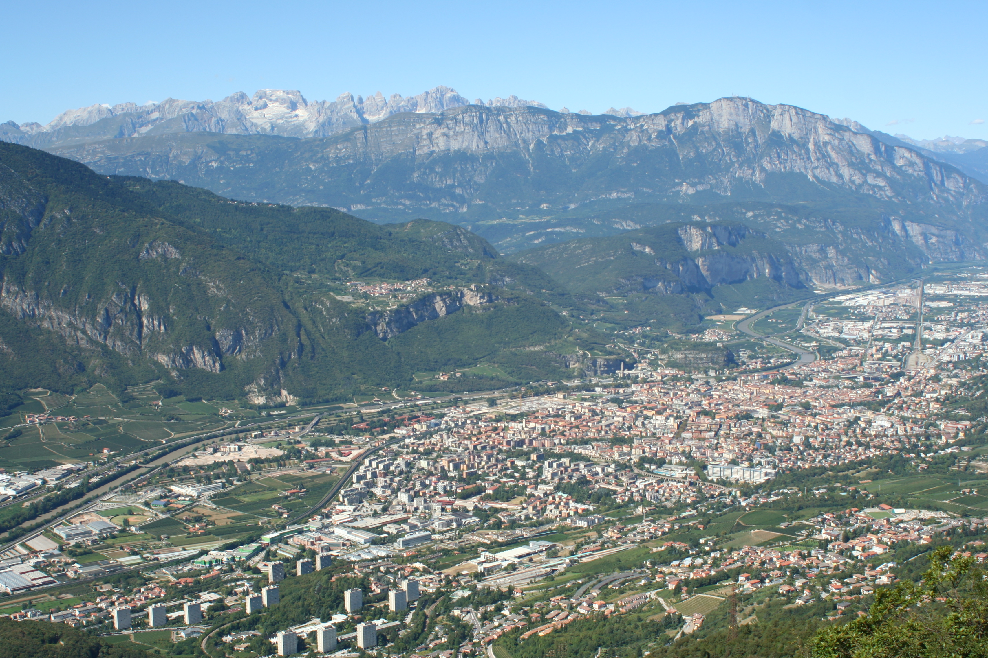 Trento, Paganella and Brenta from Cros di Maranza